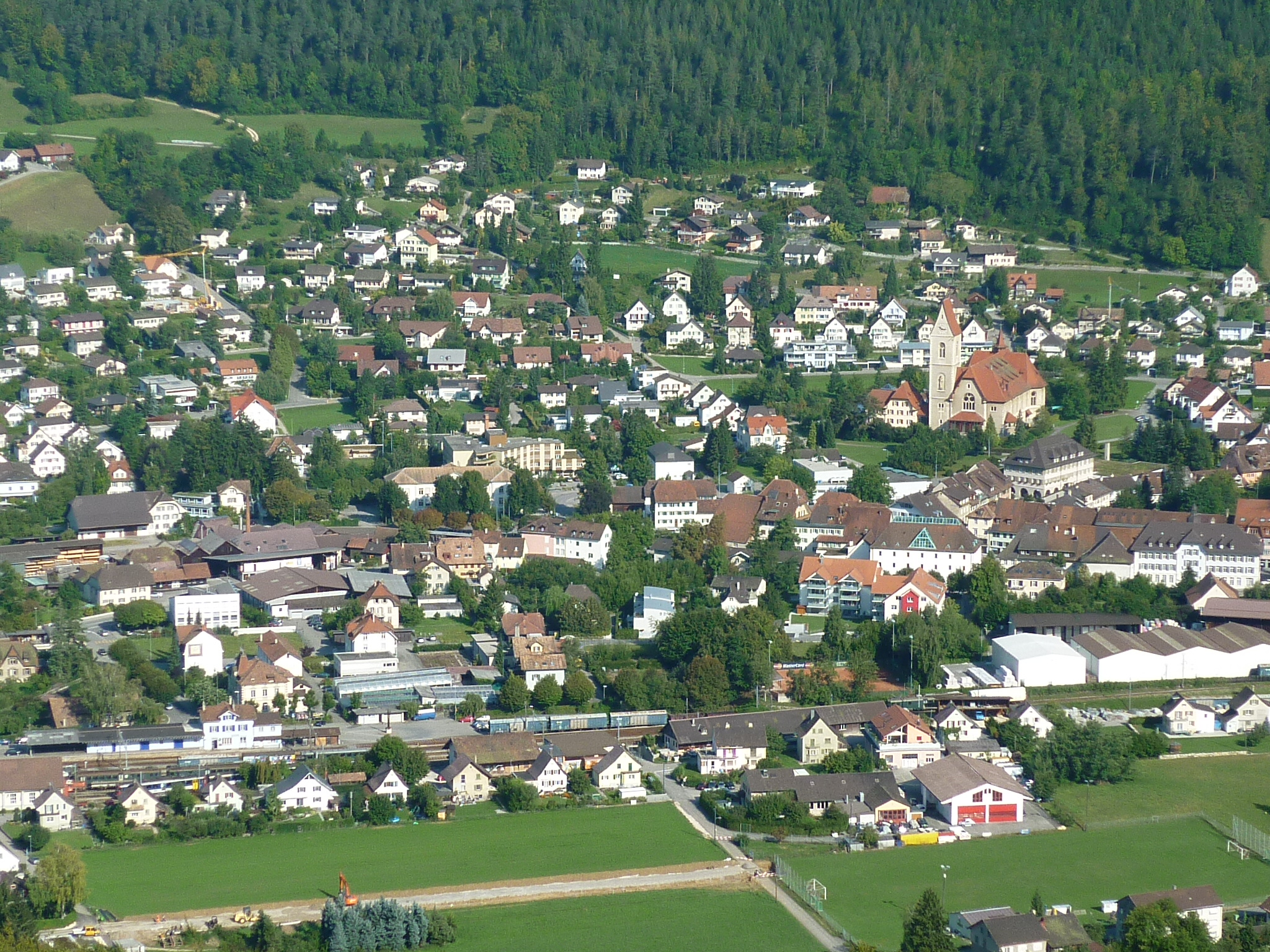 Balsthal SO, Switzerland